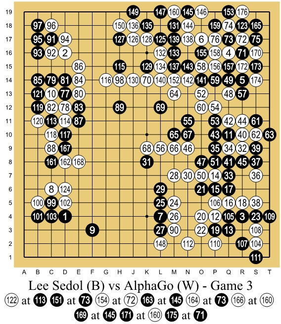 Lee Sedol (B) vs AlphaGo (W) - Game 3 Komi: 7.50 Time: 2h0min 3x1min byo-yomi Result: White wins by resignation Rules: Chinese